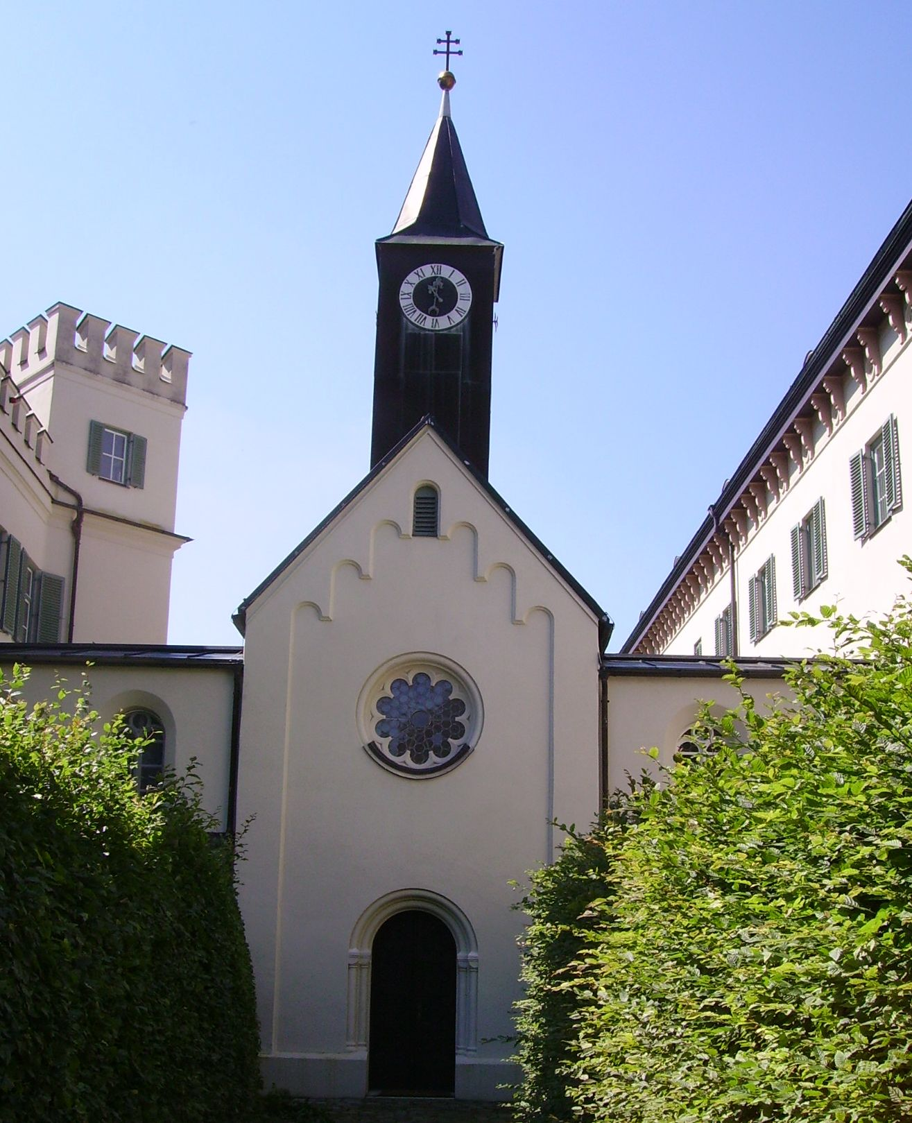 Possenhofen in Germany